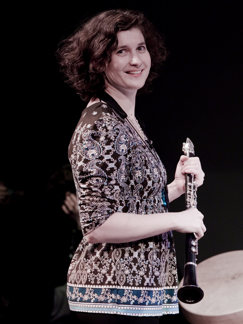 German jazz-musician (clarinet) Annette Maye